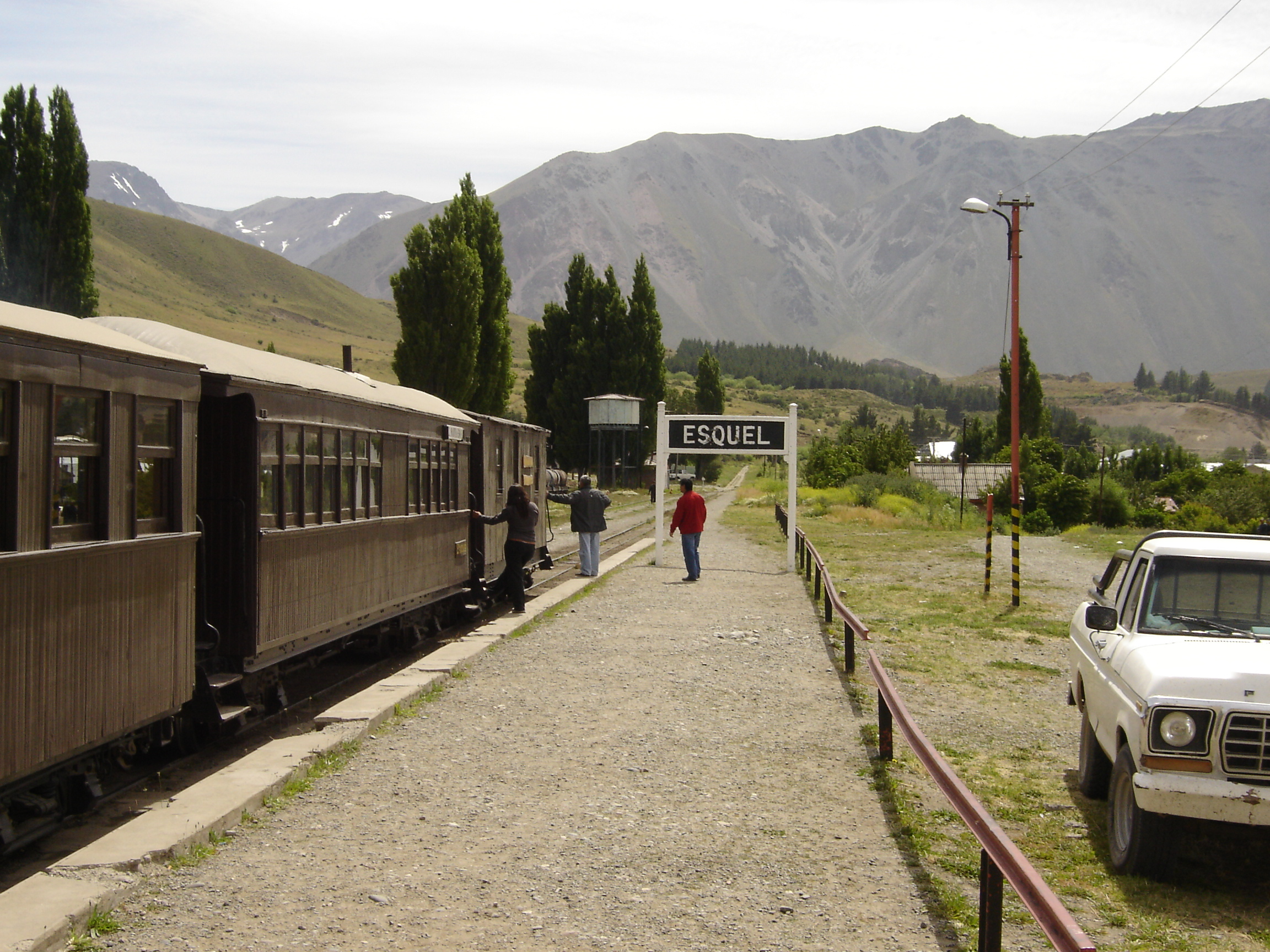 Old Patagonian Express "La Trochita", taken in ESQUEL ESTACION FCGR, U9200, Chubut, Argentina. Province: ISO 3166-2: AR-U. FIPS 10-4: AR04. INDEC: 26. Department: Futaleufú Department. DD: 42°54′24″S 71°17′38″W / 42.906700°S 71.294000°W